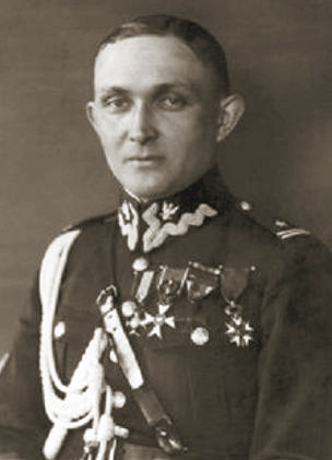 Marian Porwit (1895-1988) - Colonel of the Polish Army and a military historian. Here in the rank of Major (before 1929)